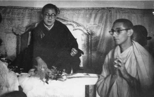 Sangharakshita & Dalai Lama, Everton Villa. May 1957